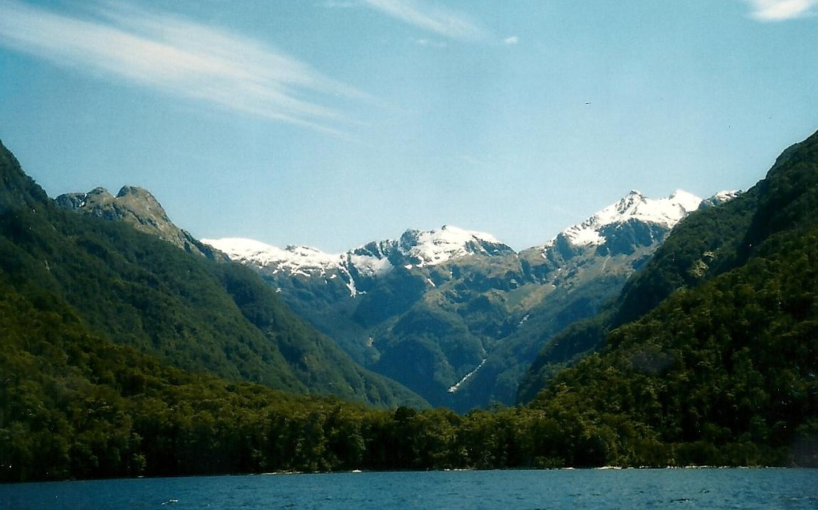 Photo of Lake Manapouri